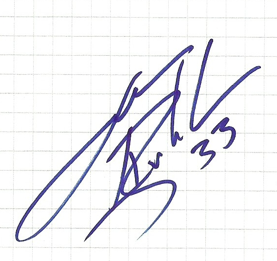 Signature of Jason Bacashihua